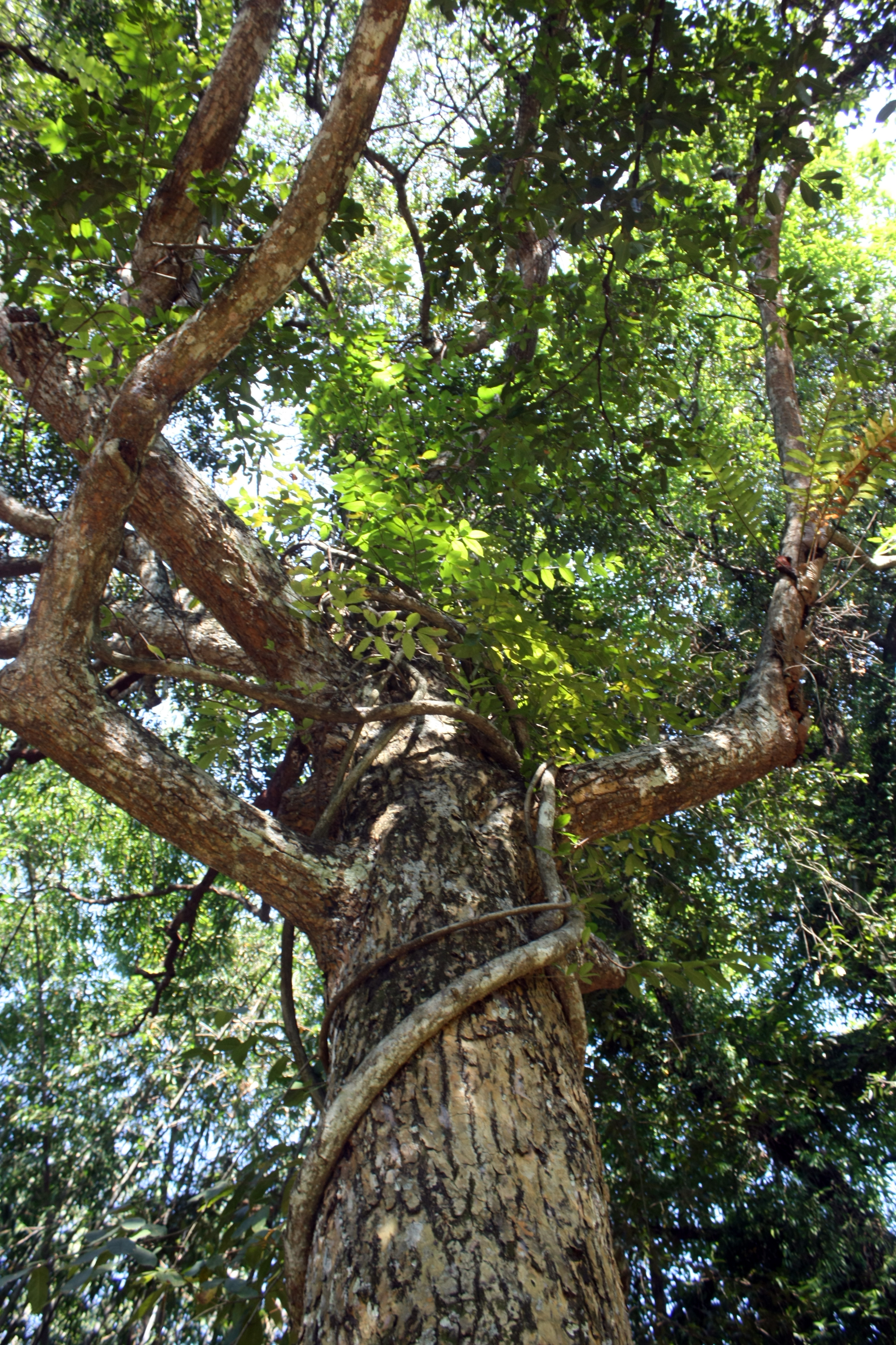 Calophyllum tomentosum in Botanical Garden of Peradeniya